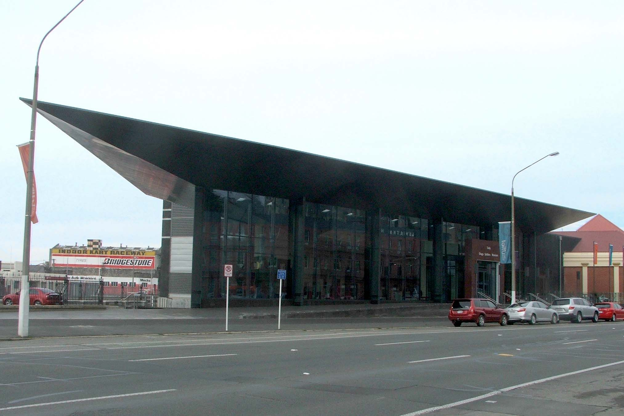 The 2012 entrance wing to Dunedin, New Zealand's Toitū Otago Settlers Museum. The wing houses the museum's cafe, shop, and reception area.